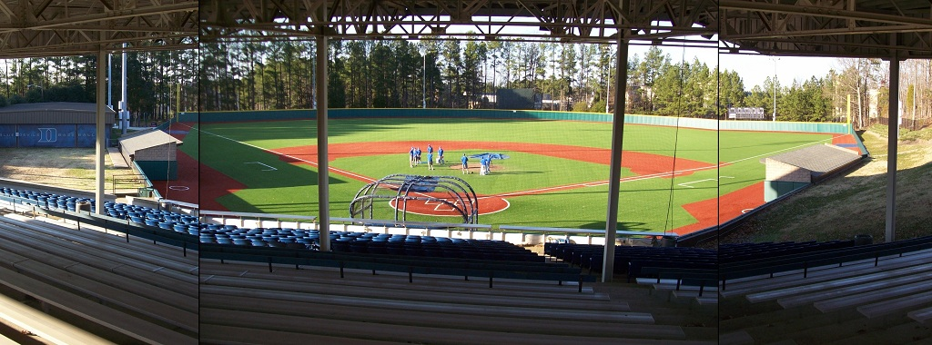 Jack Coombs Field, home of the Duke University baseball team. Taken in 2011. Three separate pics arranged together, hence the distortions.